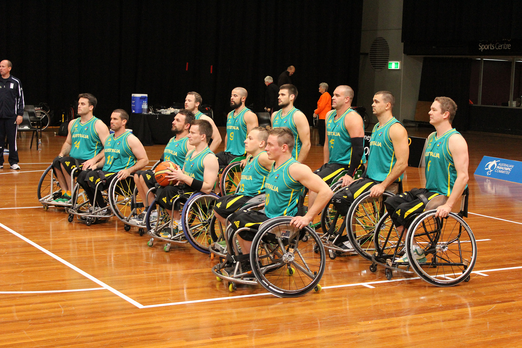 Australian Rollers at the Sports Centre.